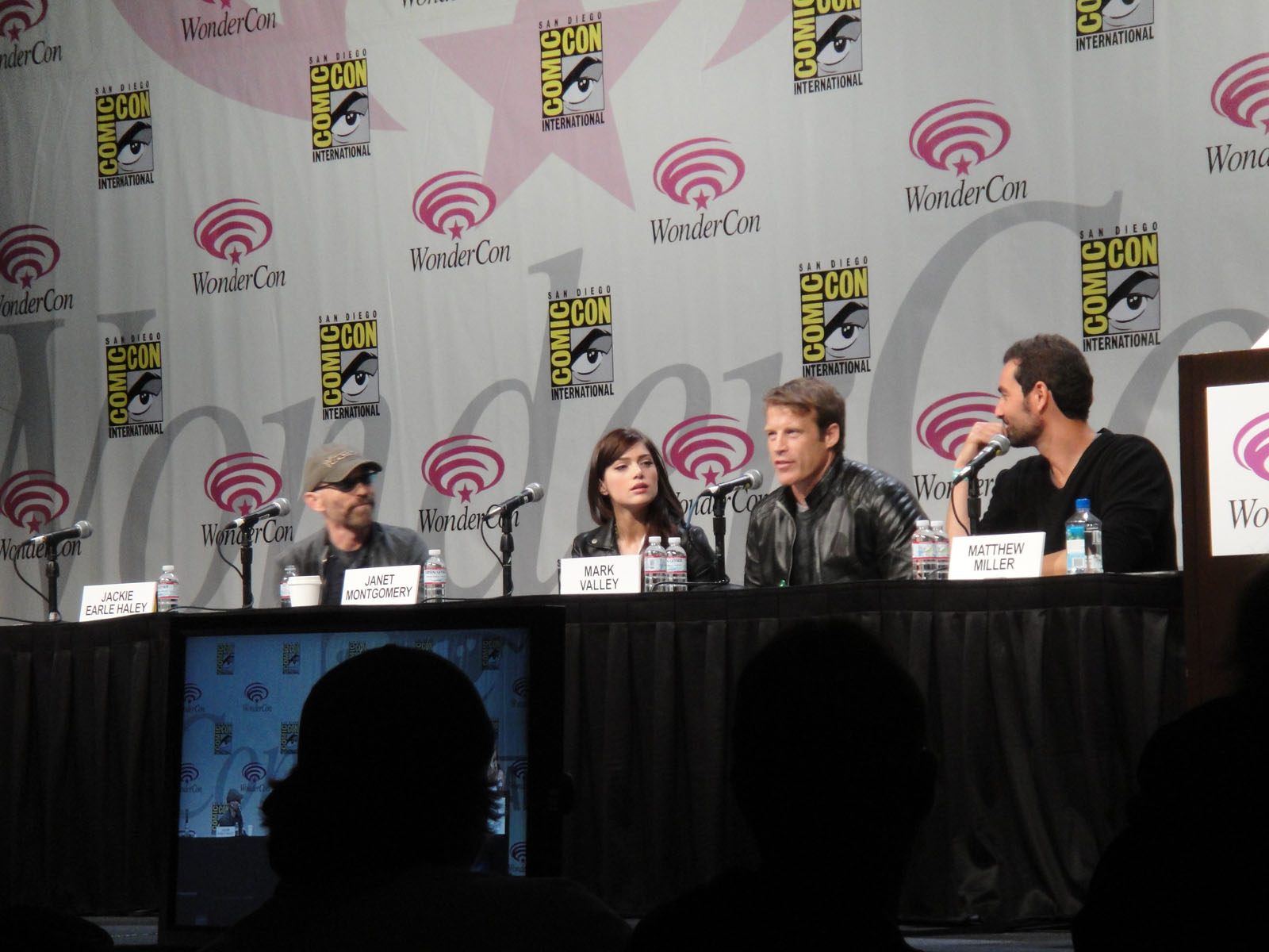 WonderCon 2011 - Human Target panel with Jackie Earle Haley, Janet Montgomery, Mark Valley and Matthew Miller.